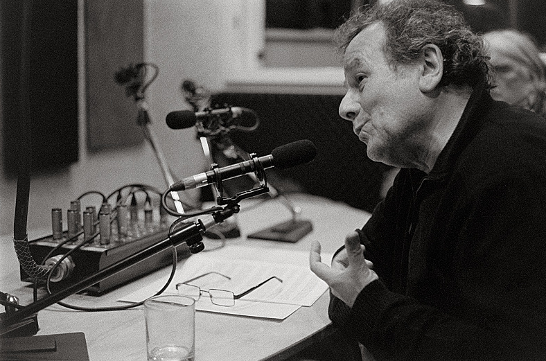 Studio of Radio Libertaire, sound broadcasting station.